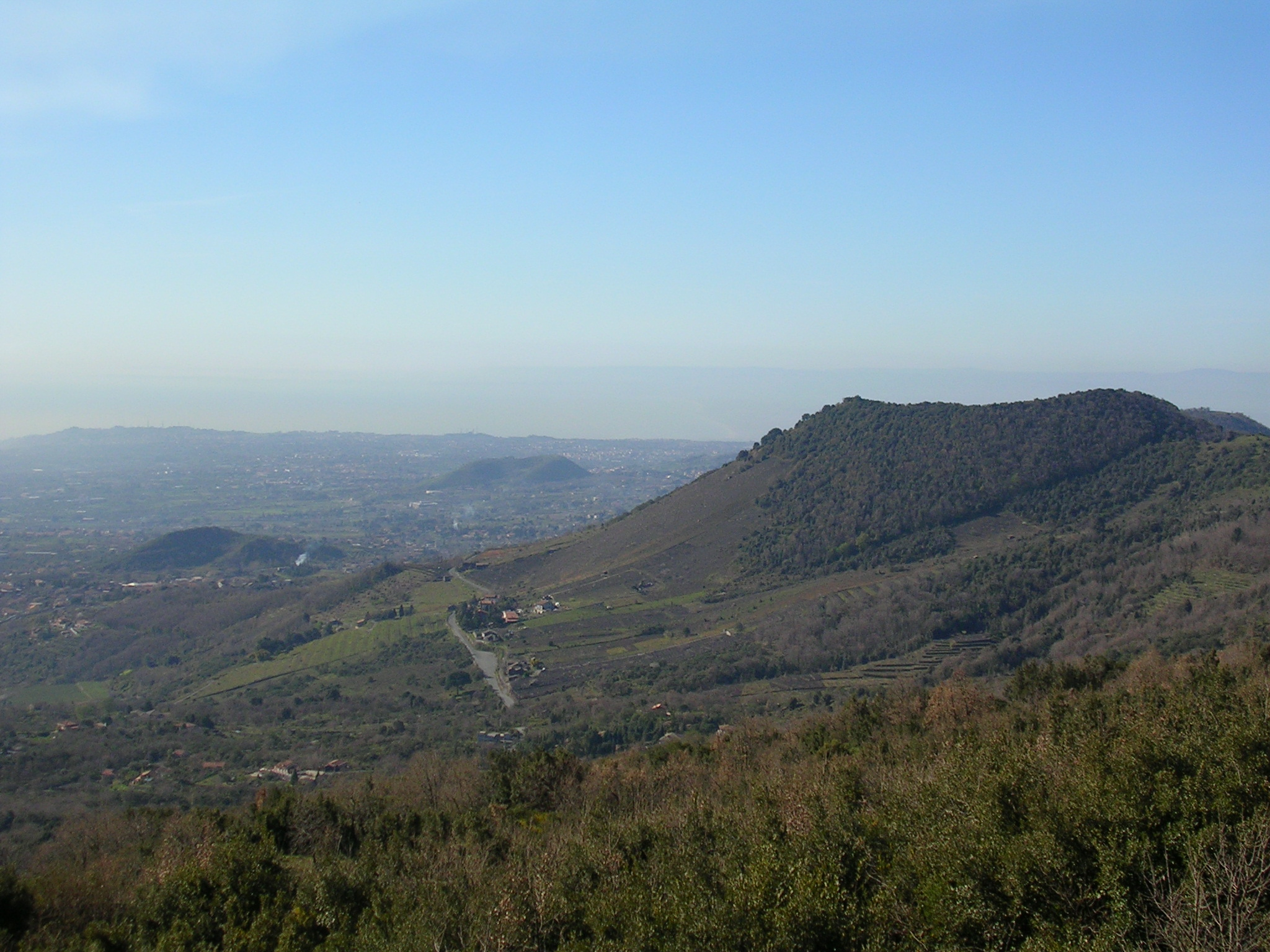 Monte Ilice (Sicily, Italy) seen from the north. On the left background, Monte Rosso and Monte Serra; on the right, a little piece of Monte Gorna.